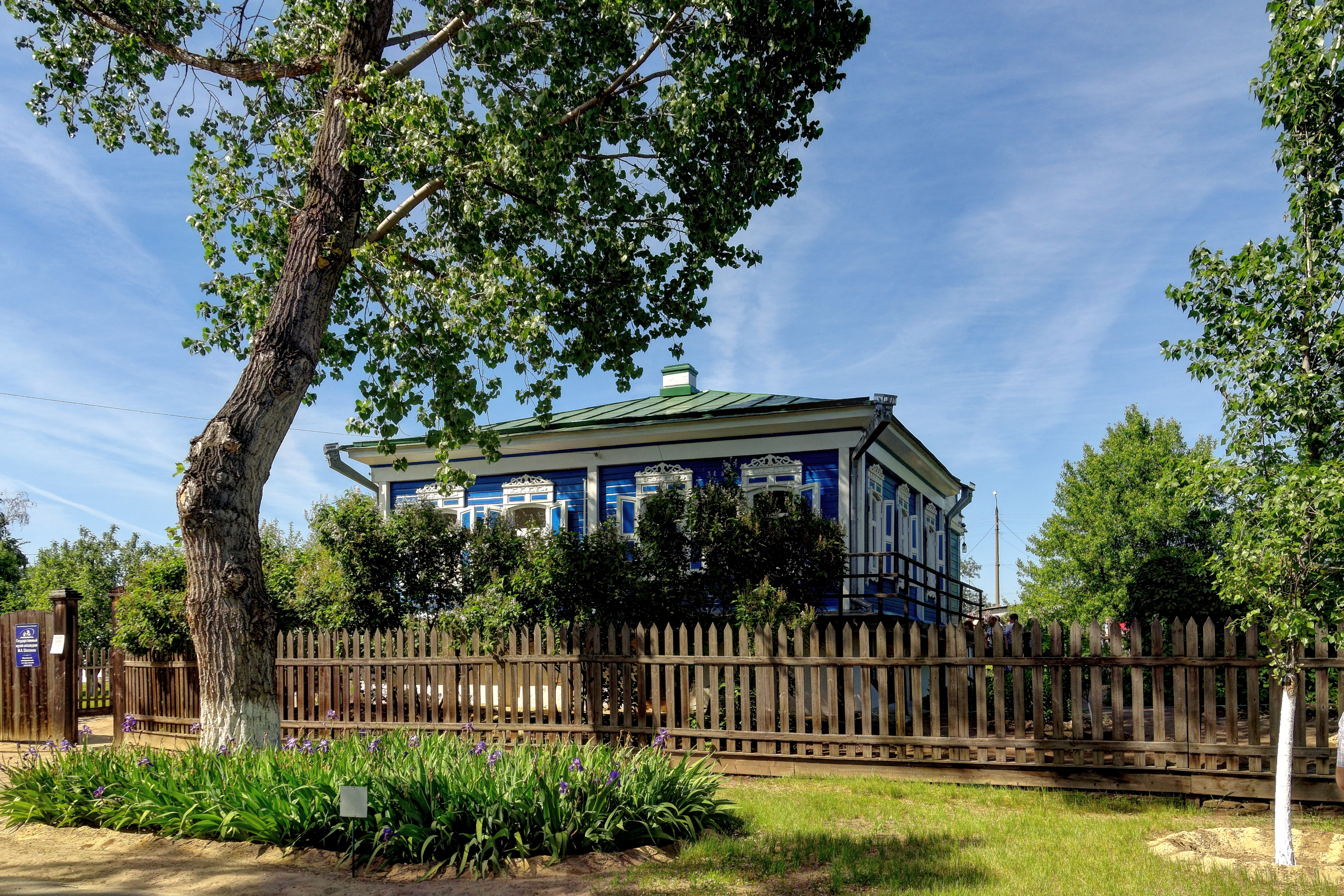 Vyoshenskaya. Mikhail Sholokhov House Museum